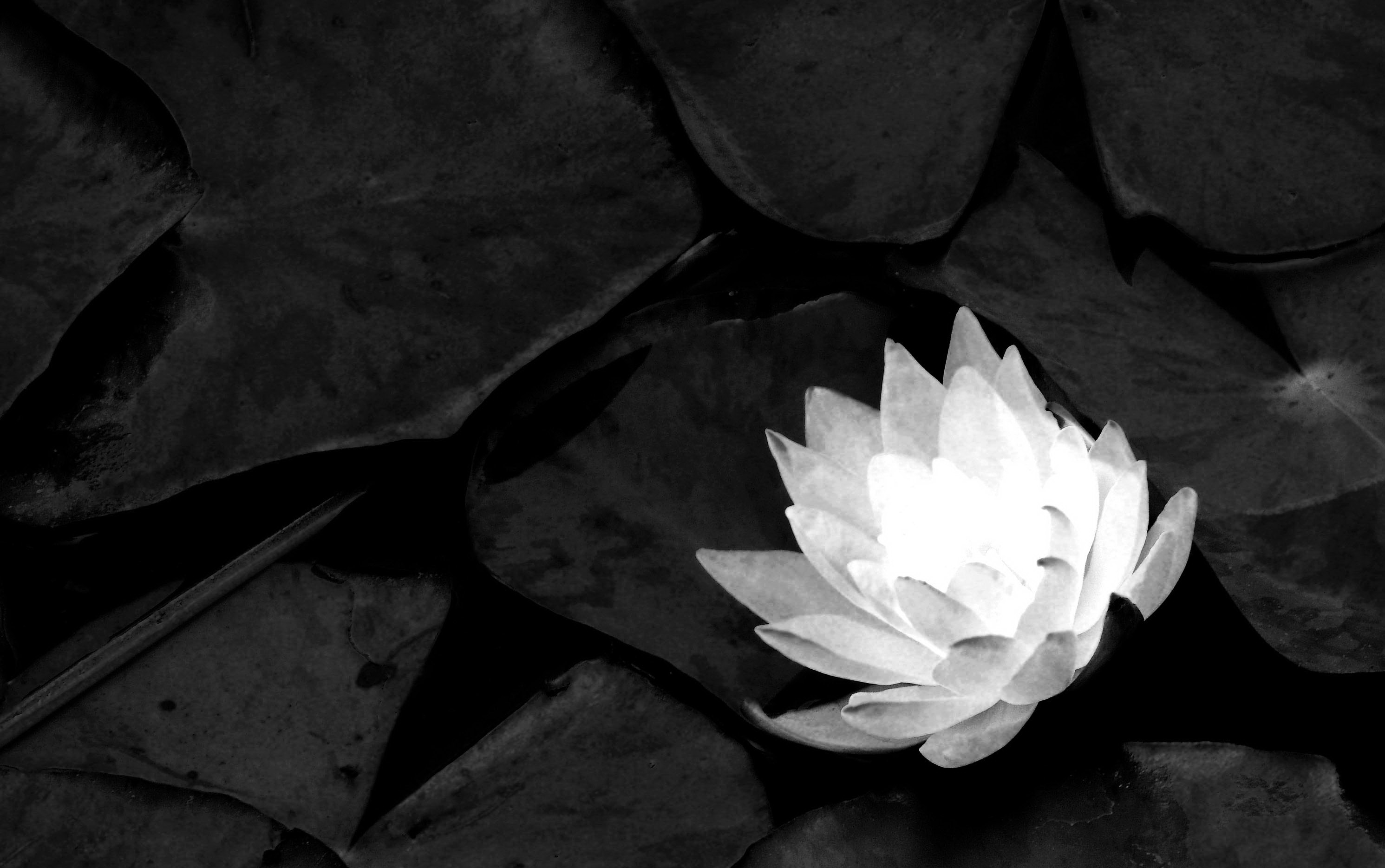 lotus flower